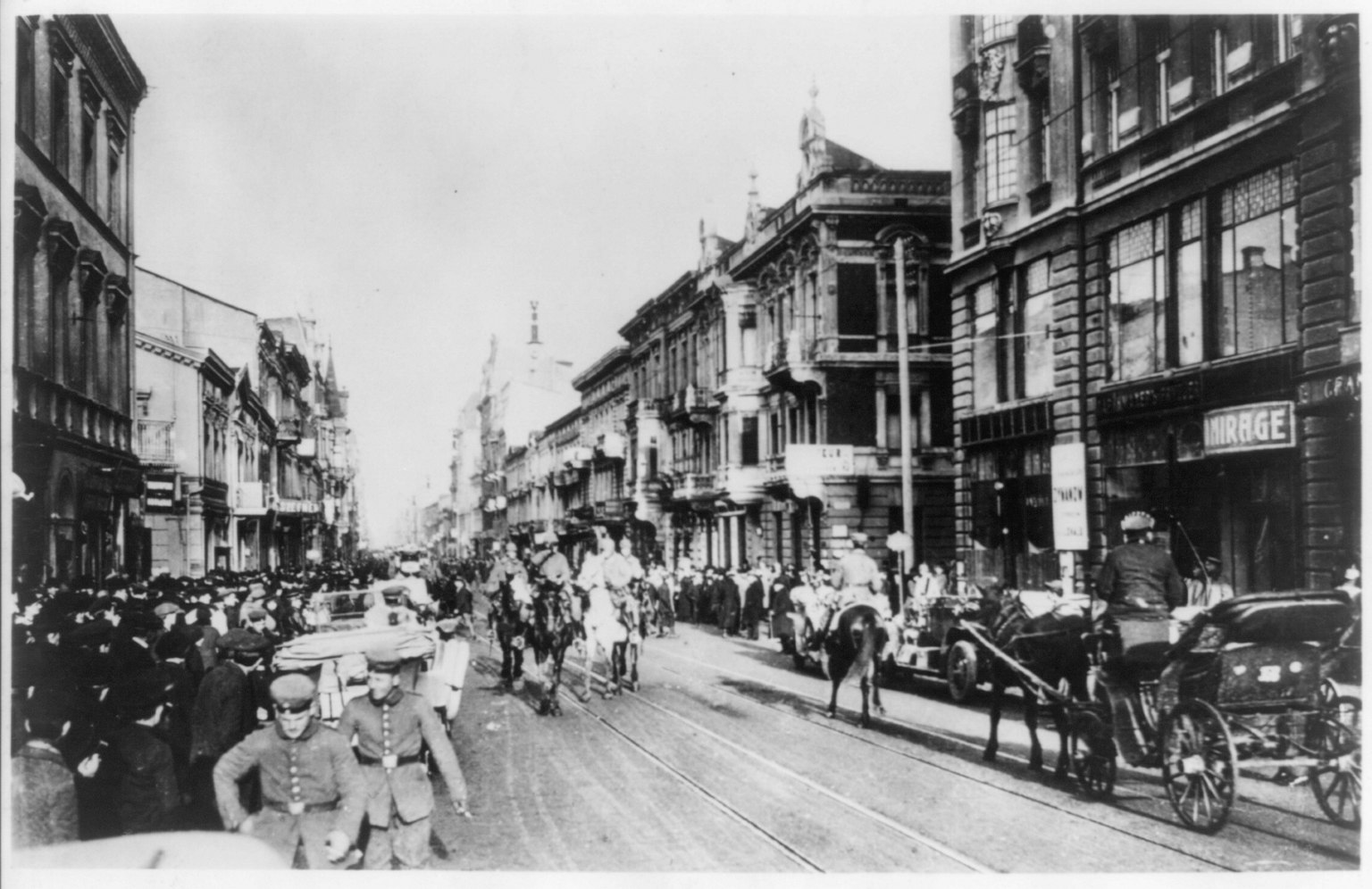 Title: Digital display record: This record exists solely to make the digital image available. You may be able to find information about the displayed item by looking at other online catalog records retrieved with the Reproduction Number below. If no such record is retrieved, information may be found in Prints & Photographs Division manual indexes. Abstract/medium: 1 photographic print.